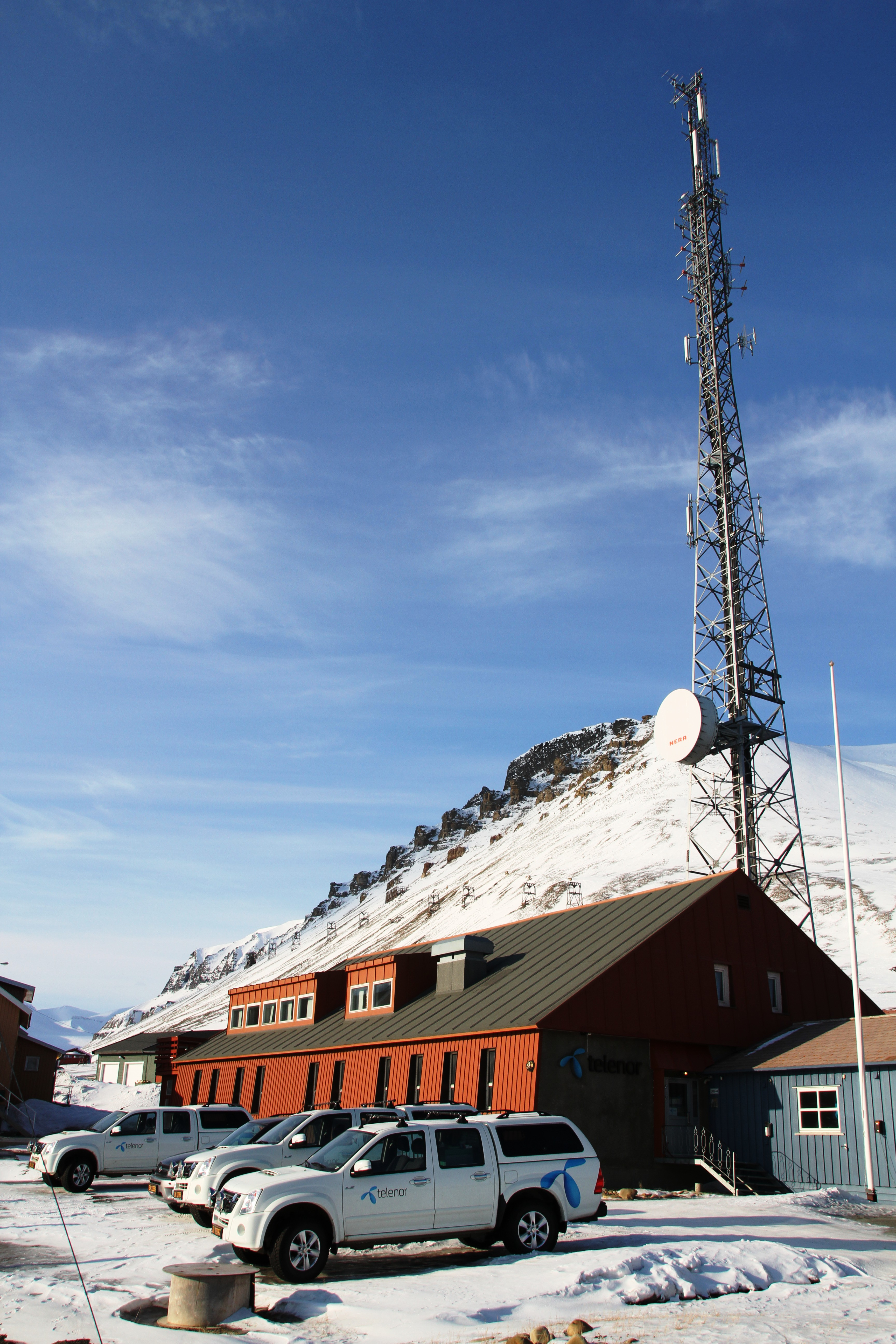 Telenor Svalbard headquarters at Skjæringa in Longyearbyen, Svalbard.